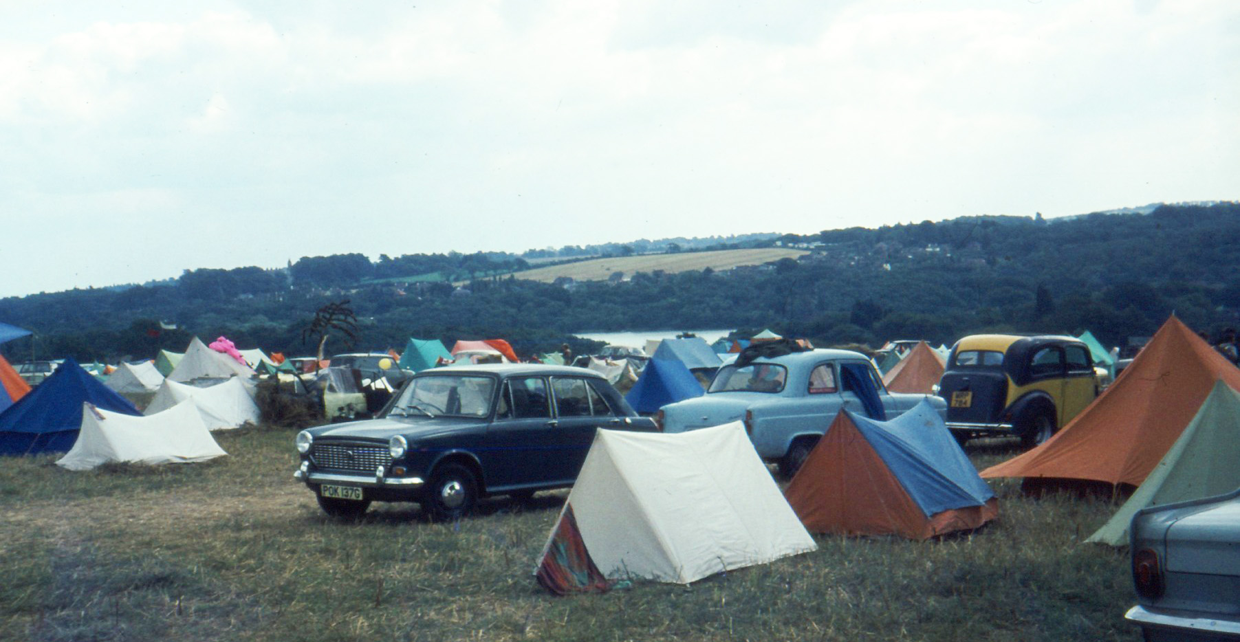 Isle of Wight Festival 1969